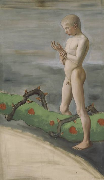 Paintings as studies for a fresco in the Cathedral of Tampere